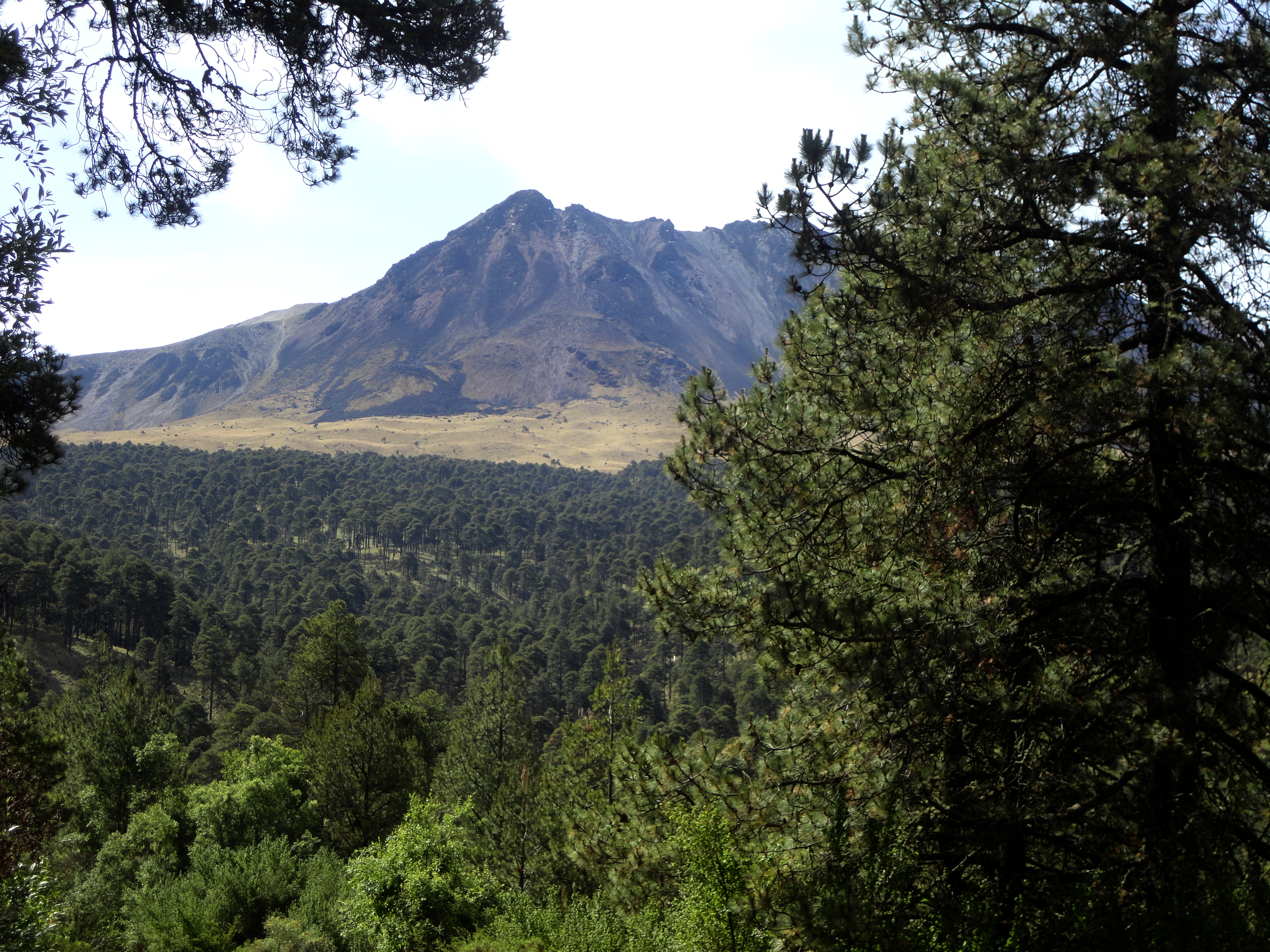 Área de protección de flora y fauna Nevado de Toluca, Edomex, México. Bosques de pino, encino y oyamel.